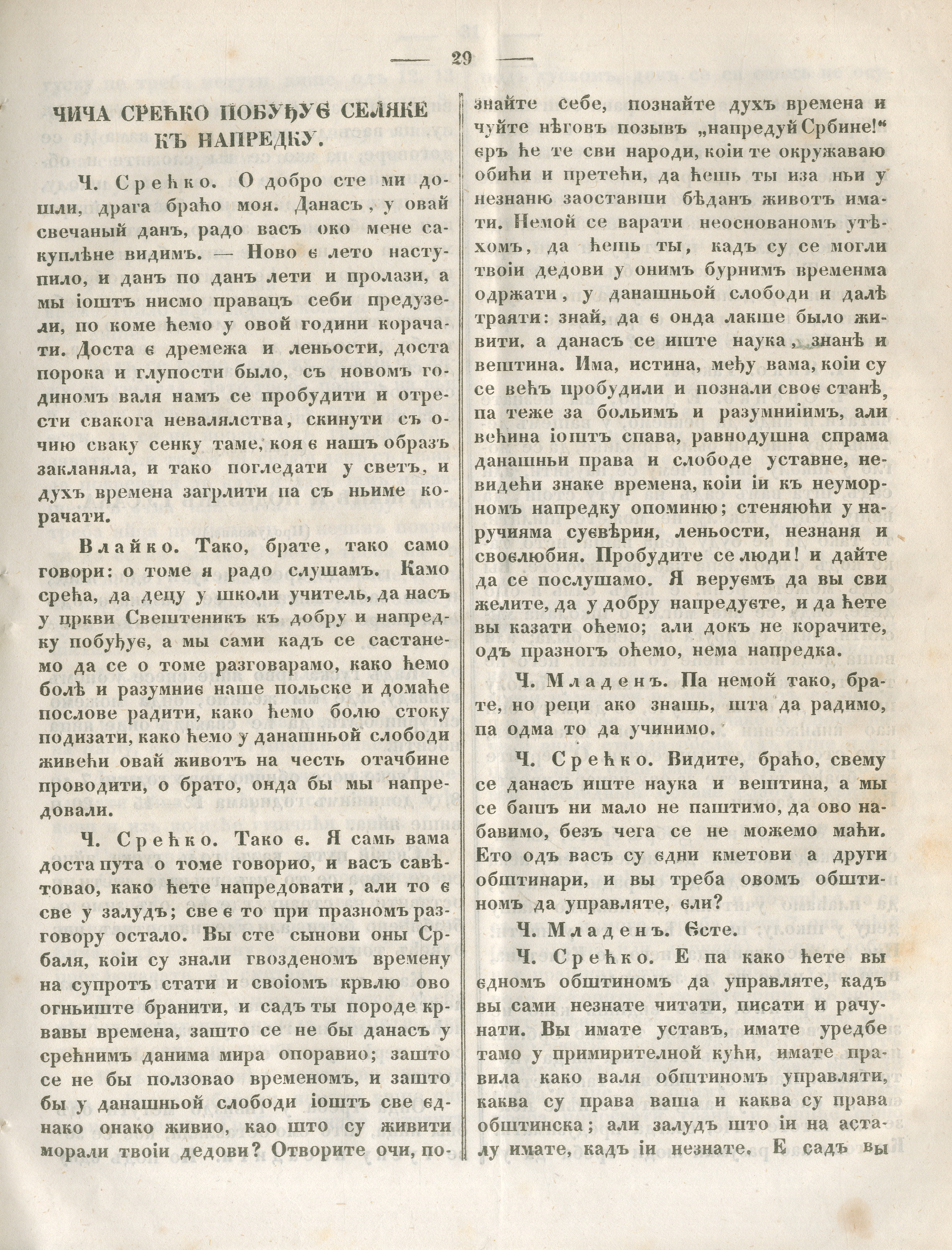 Serbian magazine Čiča Srećkov list, Belgrade, number 4, 27. January, page 29, 1848. Srpski (latinica): Časopis Čiča Srećkov list, Beograd, broj 4, 27. Januar, strana 29, 1848, članak Čiča Srećko pobuđuje seljake na napredak